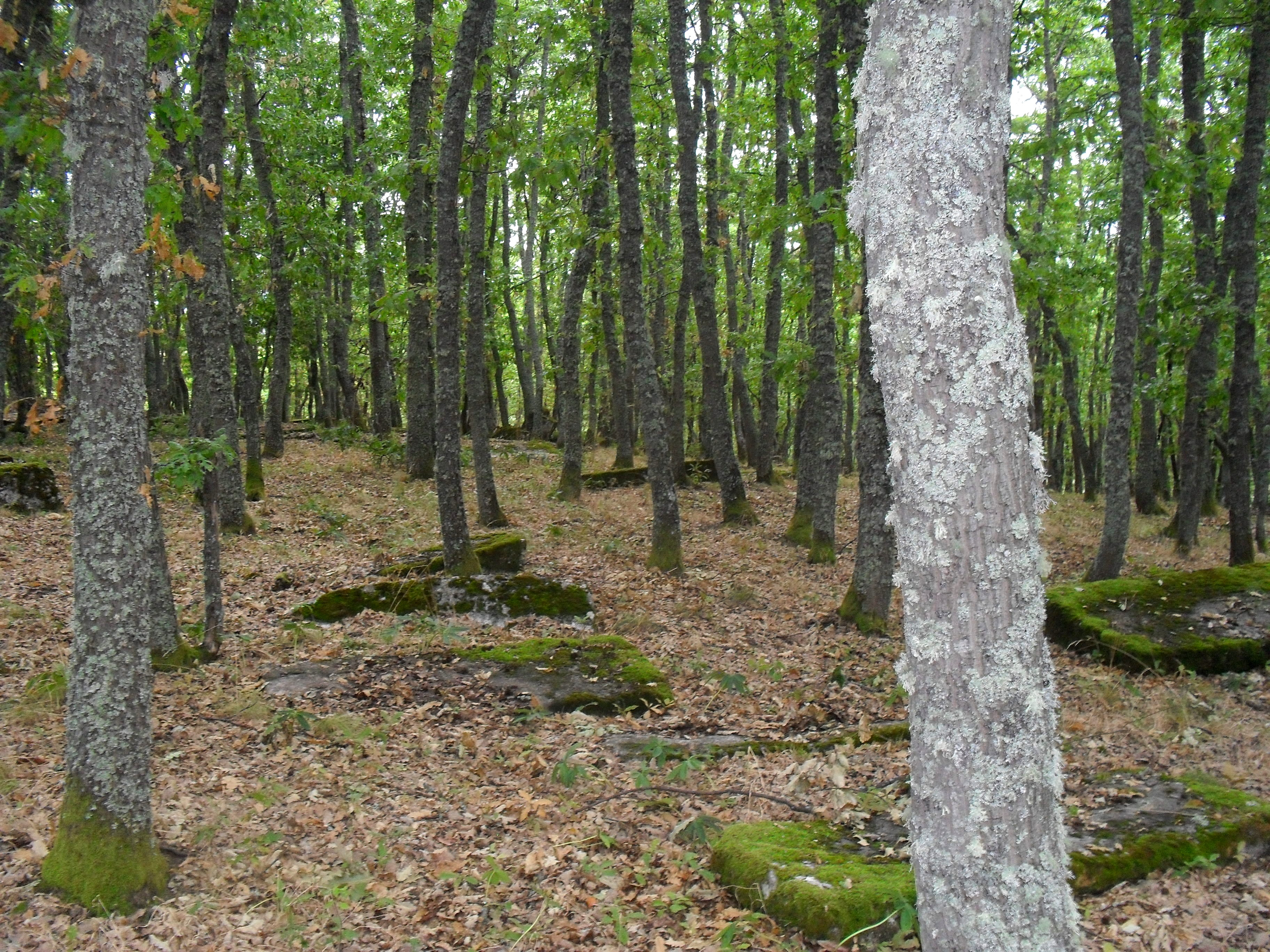 Некропола са стећцима Борак (Хан-стјенички плато), Бурати, Рогатица ID добра: NKD556